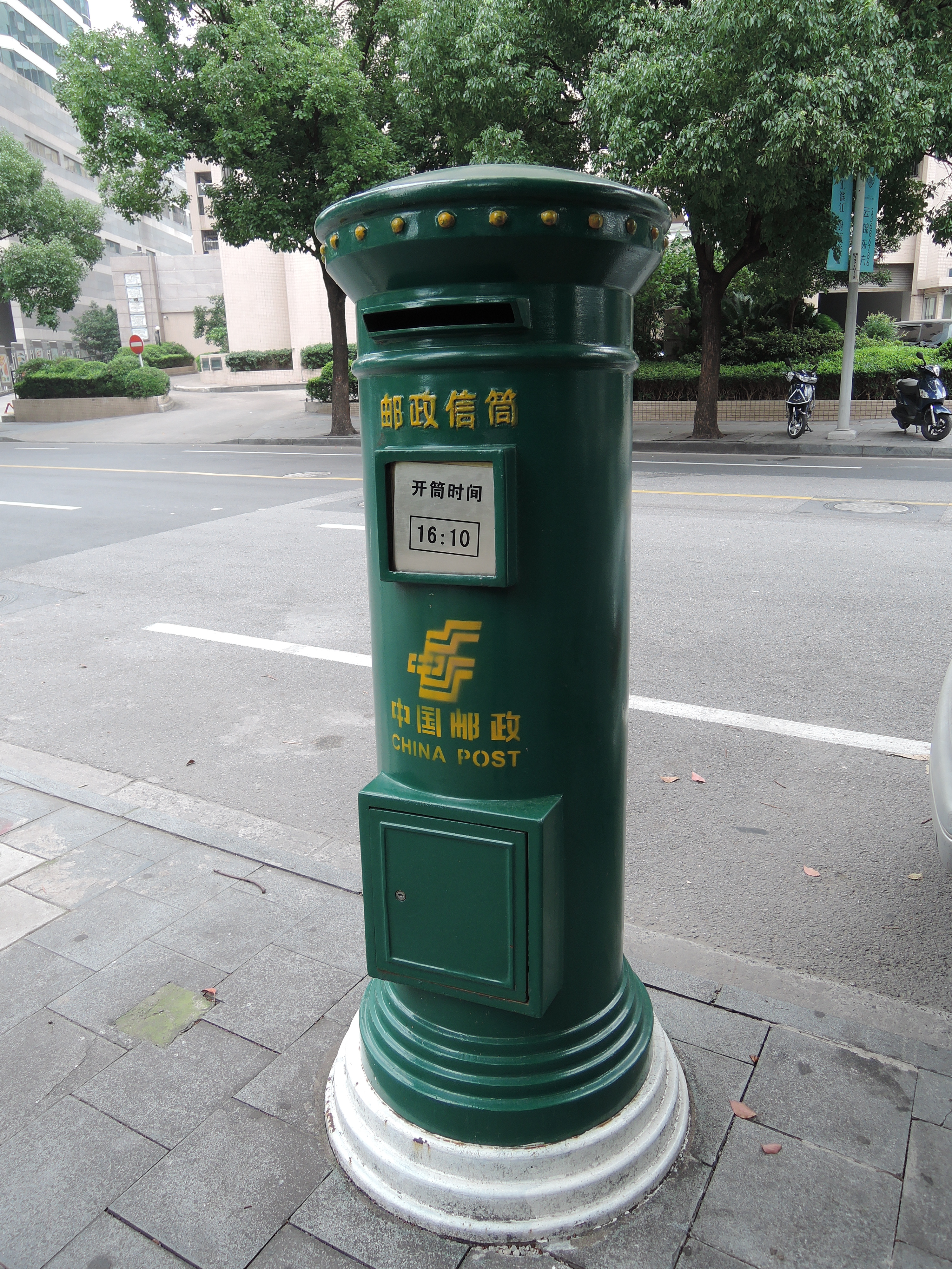 Chinese post box in Shanghai